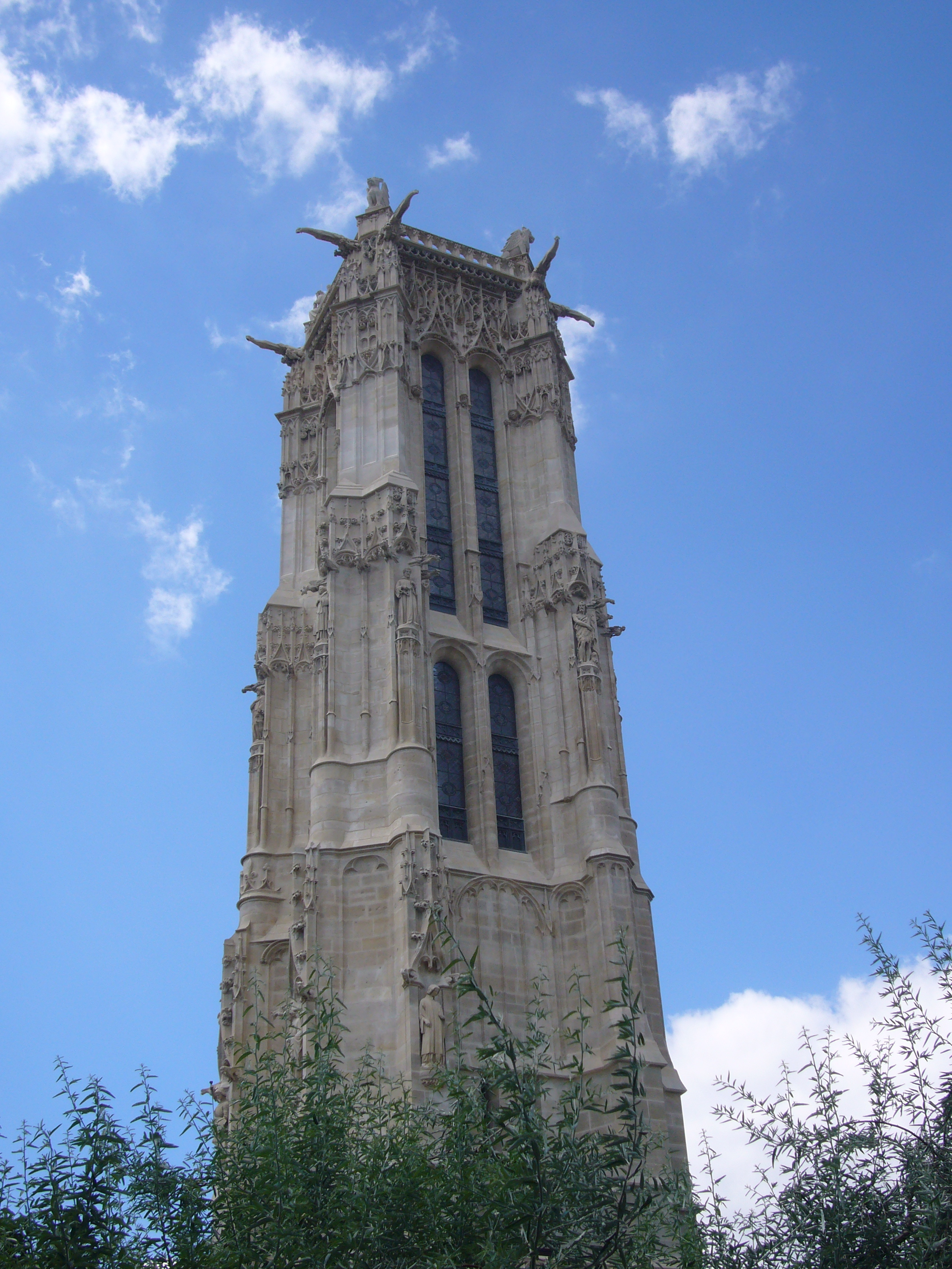 St-Jacques Tower 2008 in Paris.